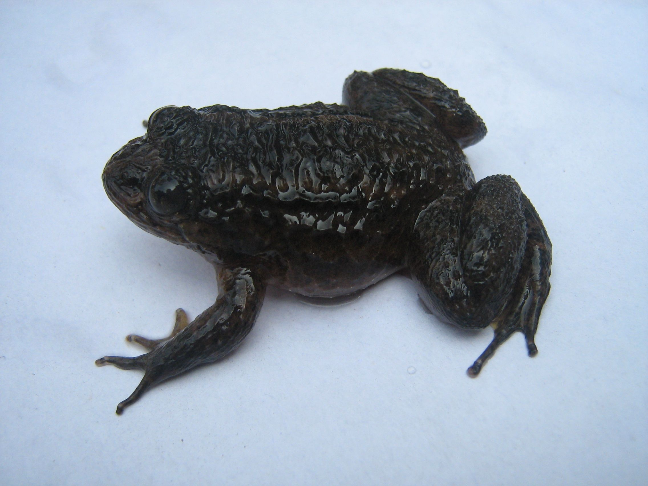 Photgraph by K P Dinesh